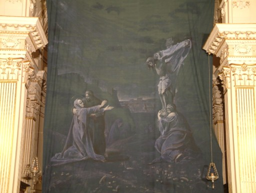 Crucifixion of Christlabel QS:Len,"Crucifixion of Christ"label QS:Lit,"Crocifissione di Cristo"